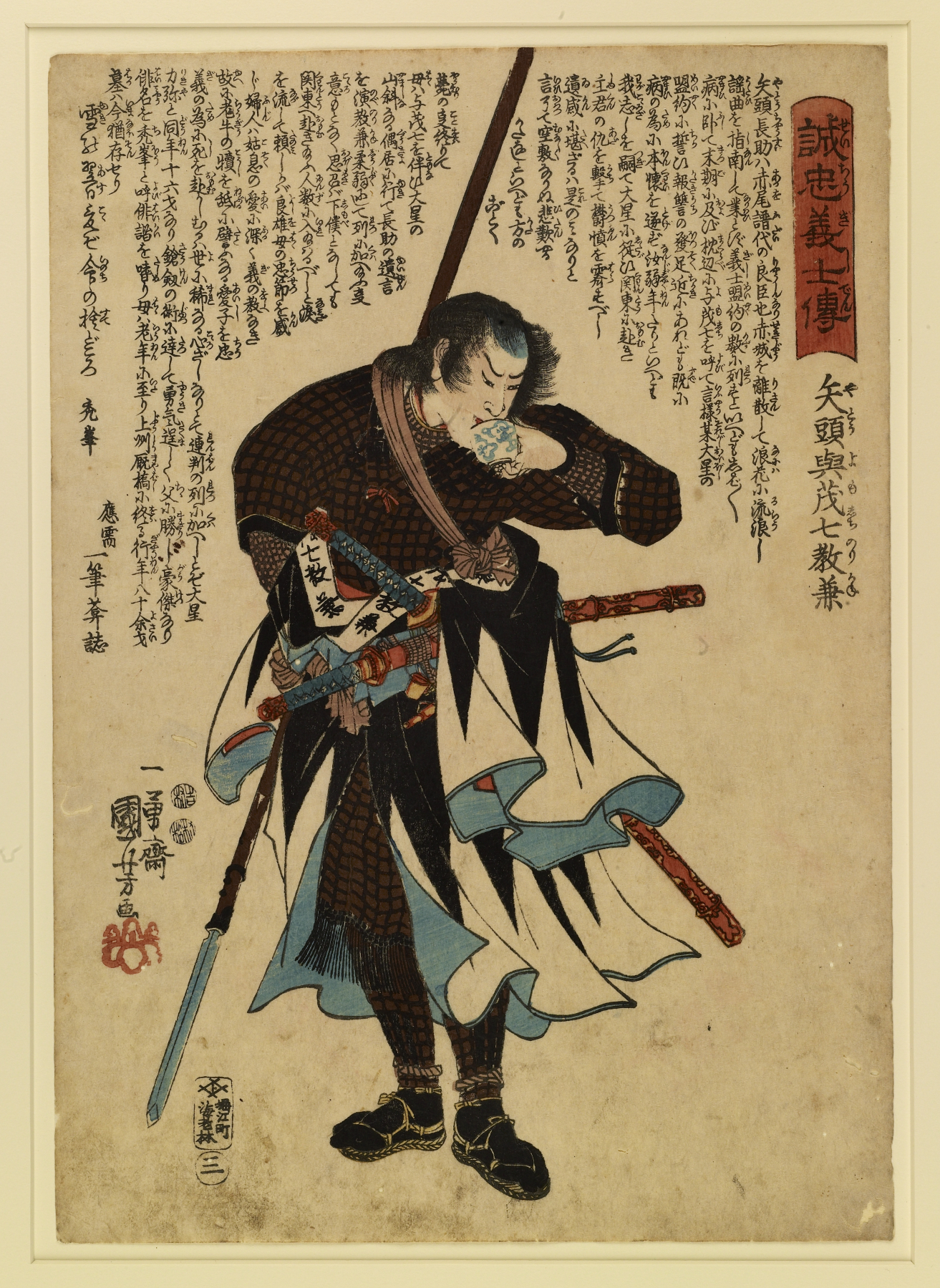 Yato Yomoshichi Norikane holding his spear in his right hand behind his back and drinking from a porcelain cup in his left hand.